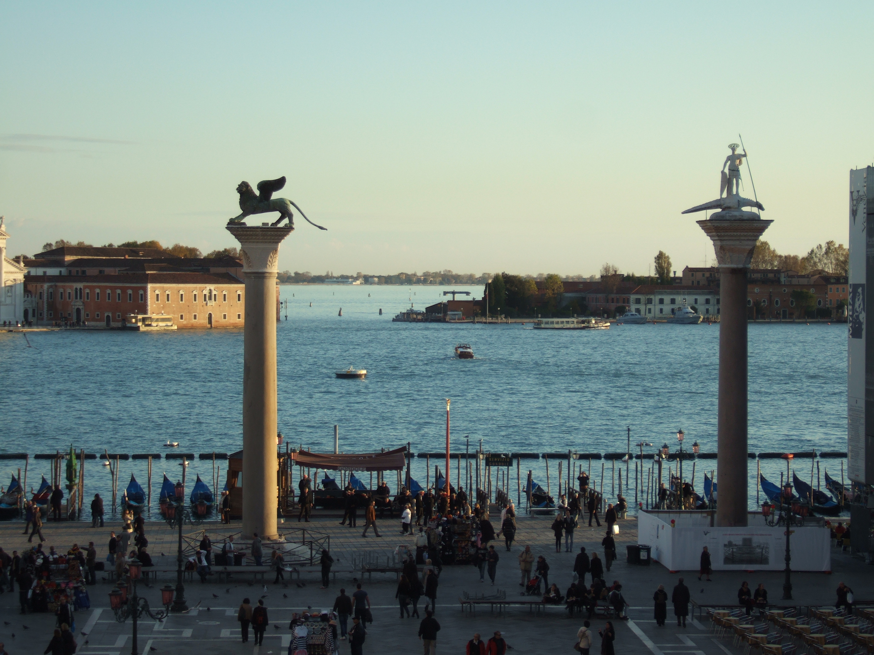 Bacino di San Marco and Canale della Grazia (Venice)